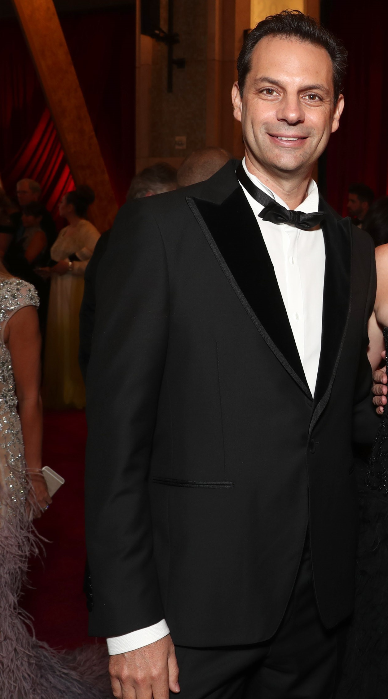 Emile Sherman pictured at the Oscars 2016